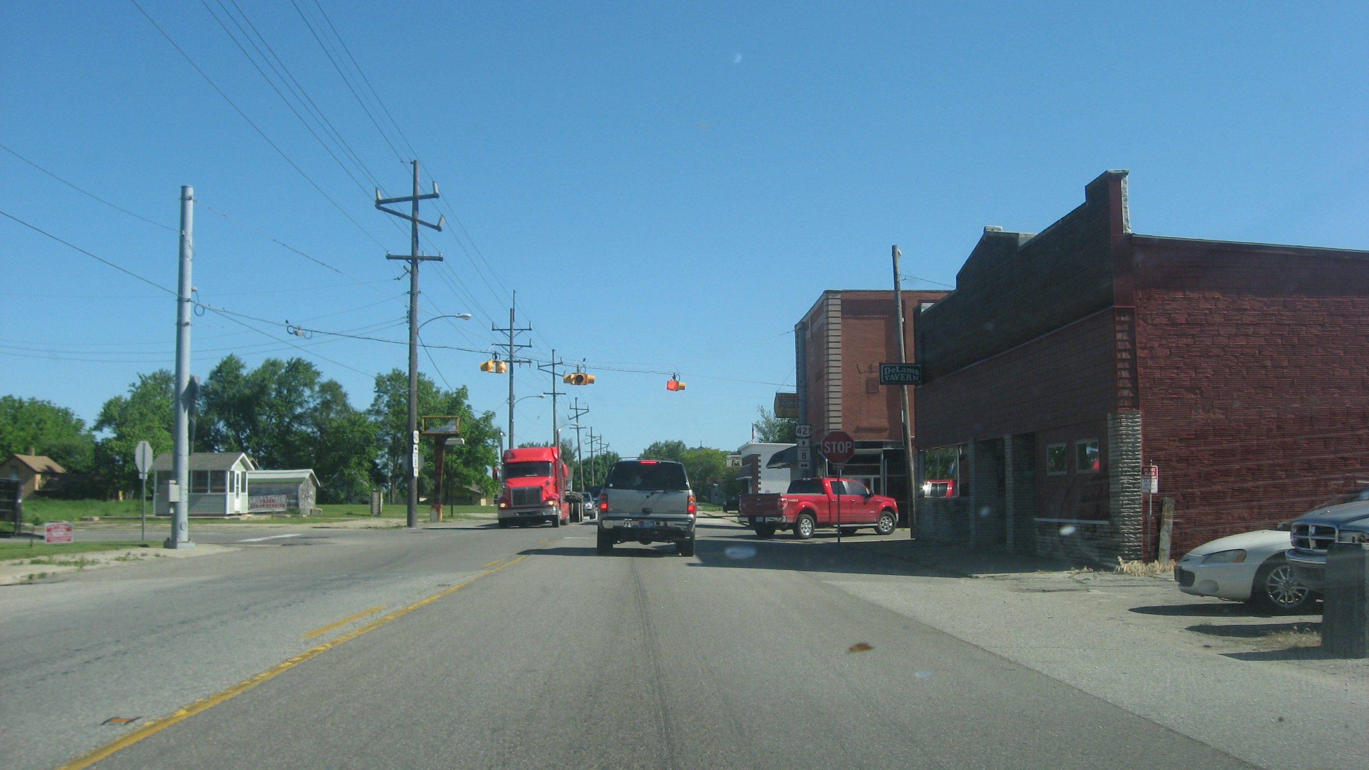 Overview of the central intersection in La Crosse, Indiana, United States. Photo is taken looking northward on Washington (U.S. Route 421) toward Main (State Road 8).